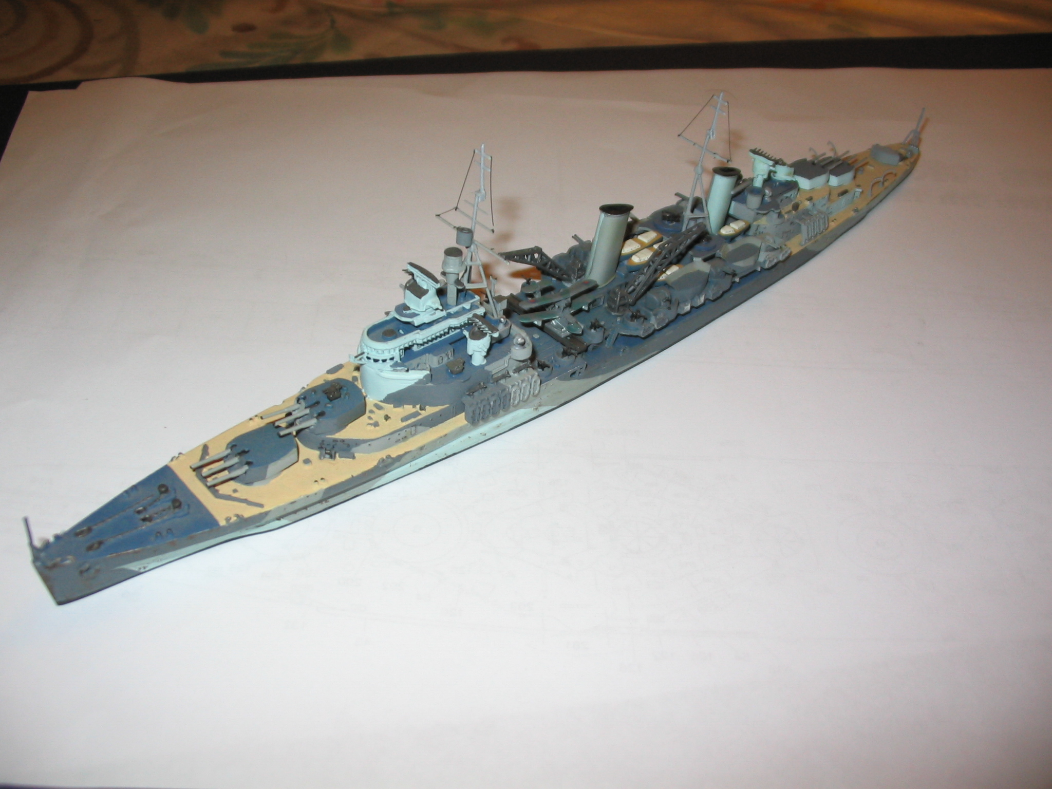 Model of a Town-class cruiser